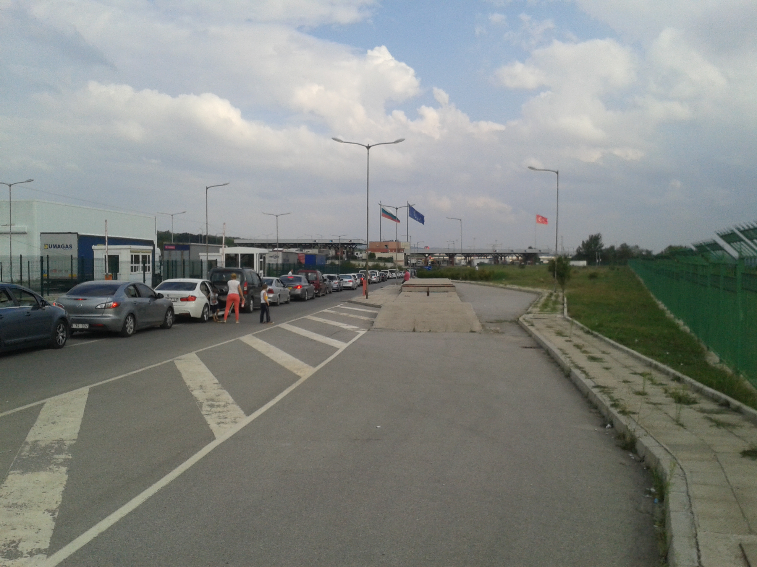 Lesovo-Hamzabeyli Border Checkpoint (view from Bulgarian side)